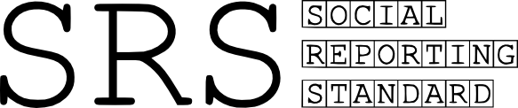 SRS Logo and lettering